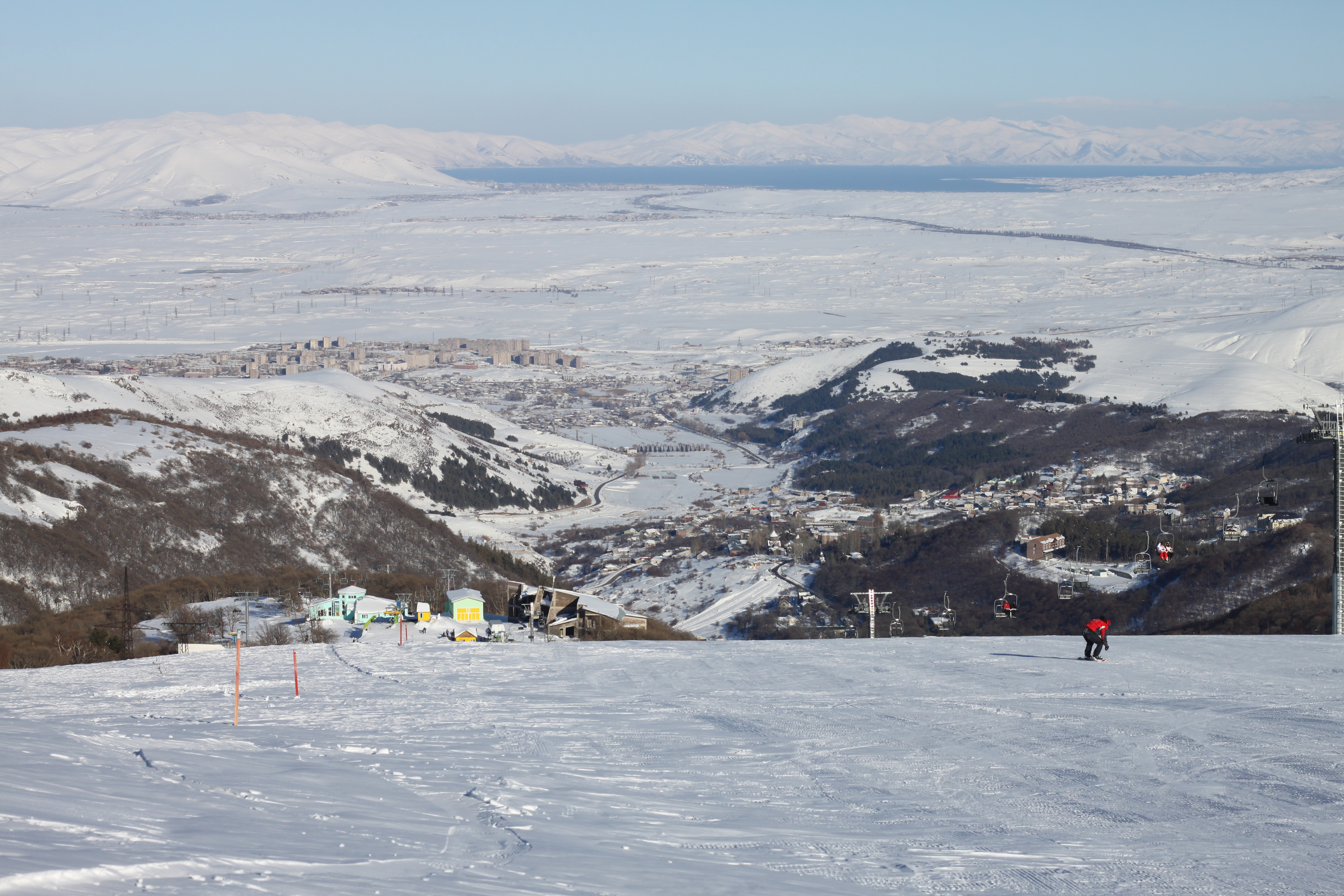 The view from the second ski route at the Tsakhkadzor ski resort in Armenia. (Lift #2 is visible on the right.) Lake Sevan is the body of water in the background, in the upper part of the image. The city of Sevan can be seen in the center top. The town of Jrarat can be seen in the center left, while the town of Tsaghkadzor is in the center and center right. The 11th century Armenian monastery of Kecharis is visible in the center of Tsaghkadzor.